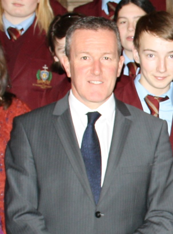 Conor Murphy MP MLA while visiting St Patrick's High School, Keady